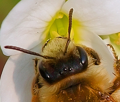 Andrena eyes details